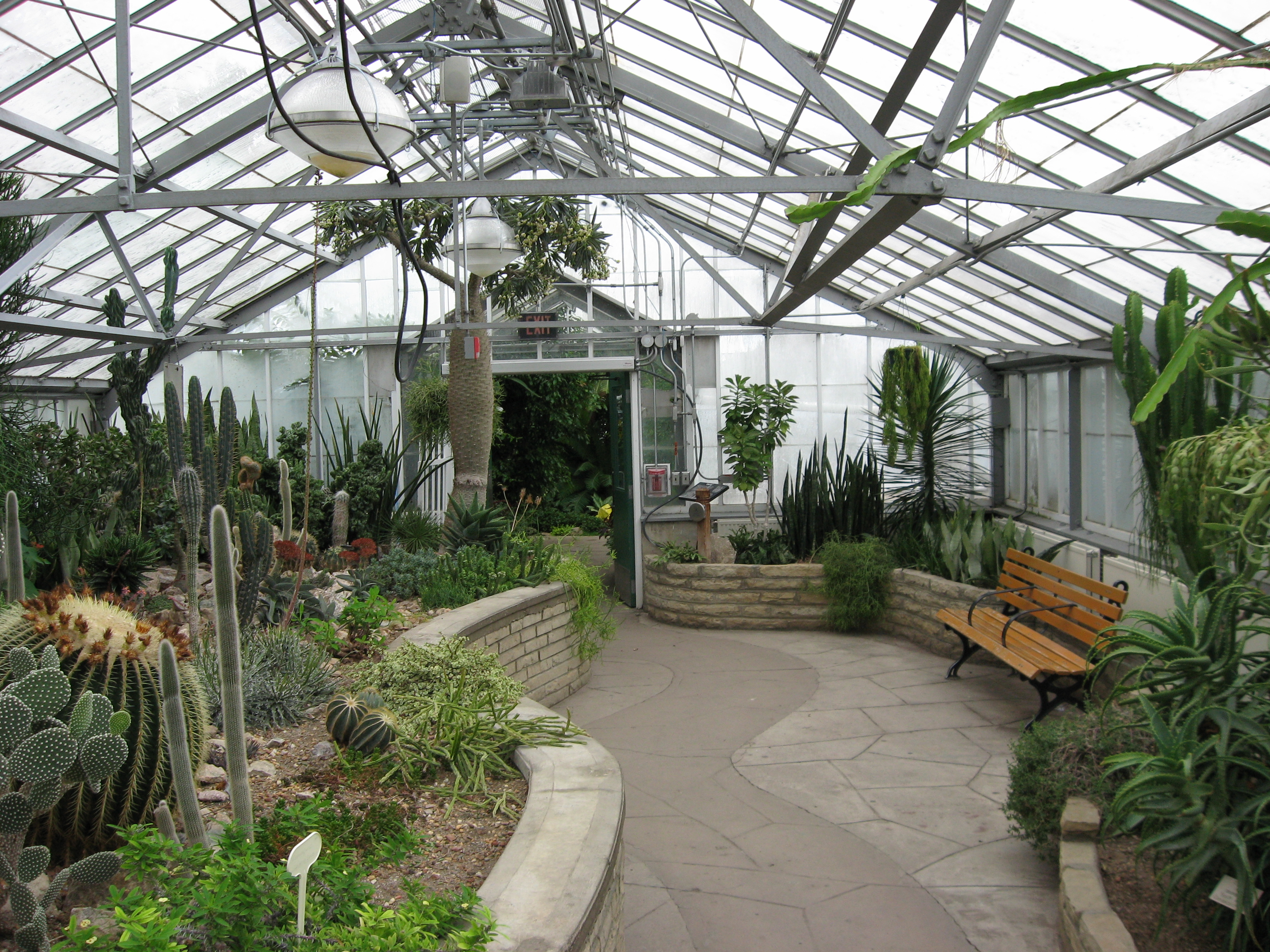 Cactus Room at Allan Gardens, Toronto, CanadaAllan Gardens Cactus Room